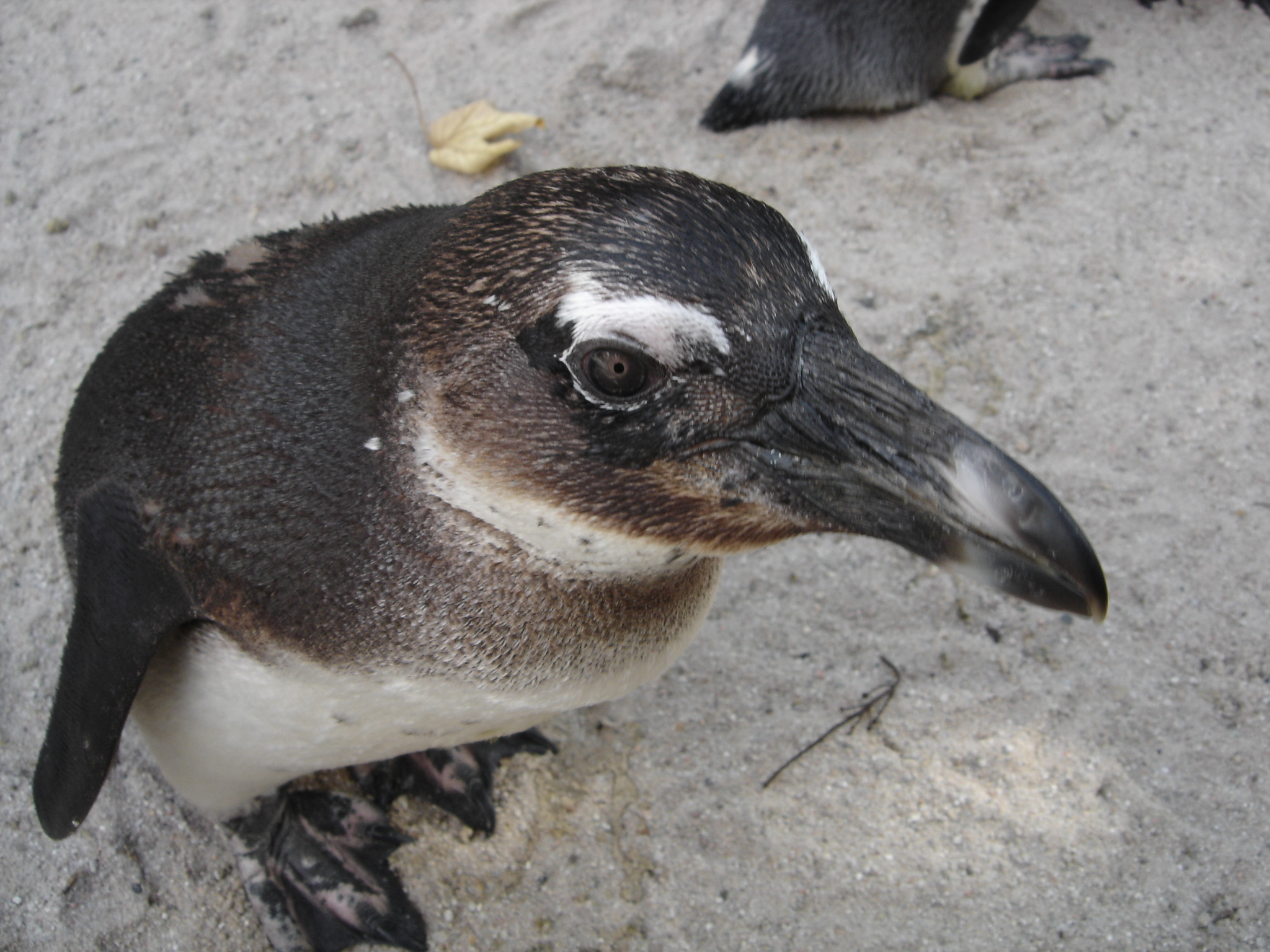 A Pinguin from Zoo, Stuttgart, Germany